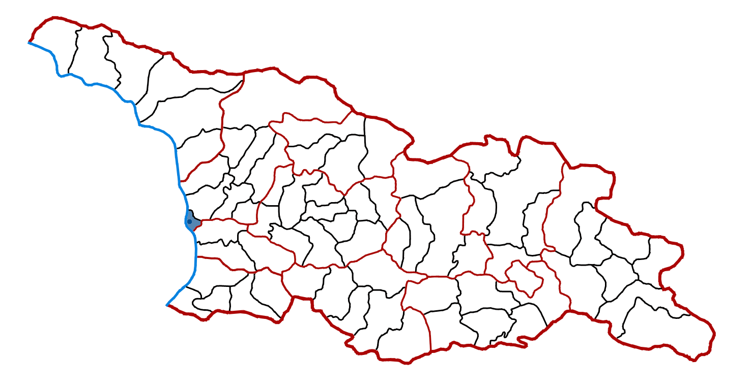 Location of Poti city in Georgia